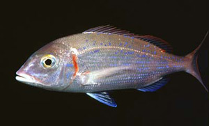 Picture of Pagellus erythrinus